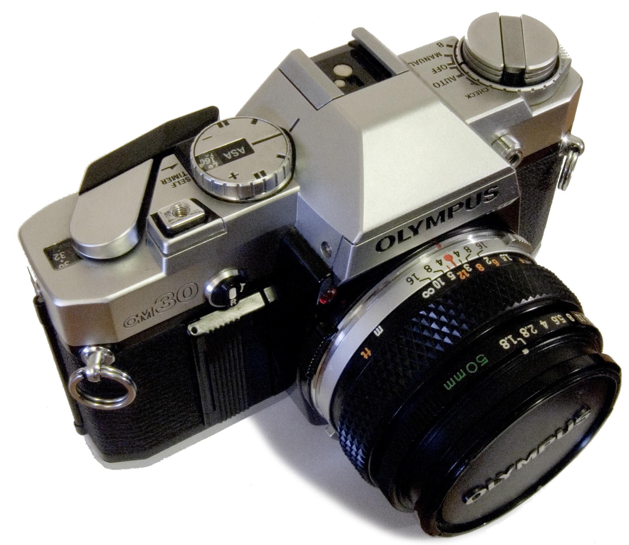 Olympus OM-30 SLR camera